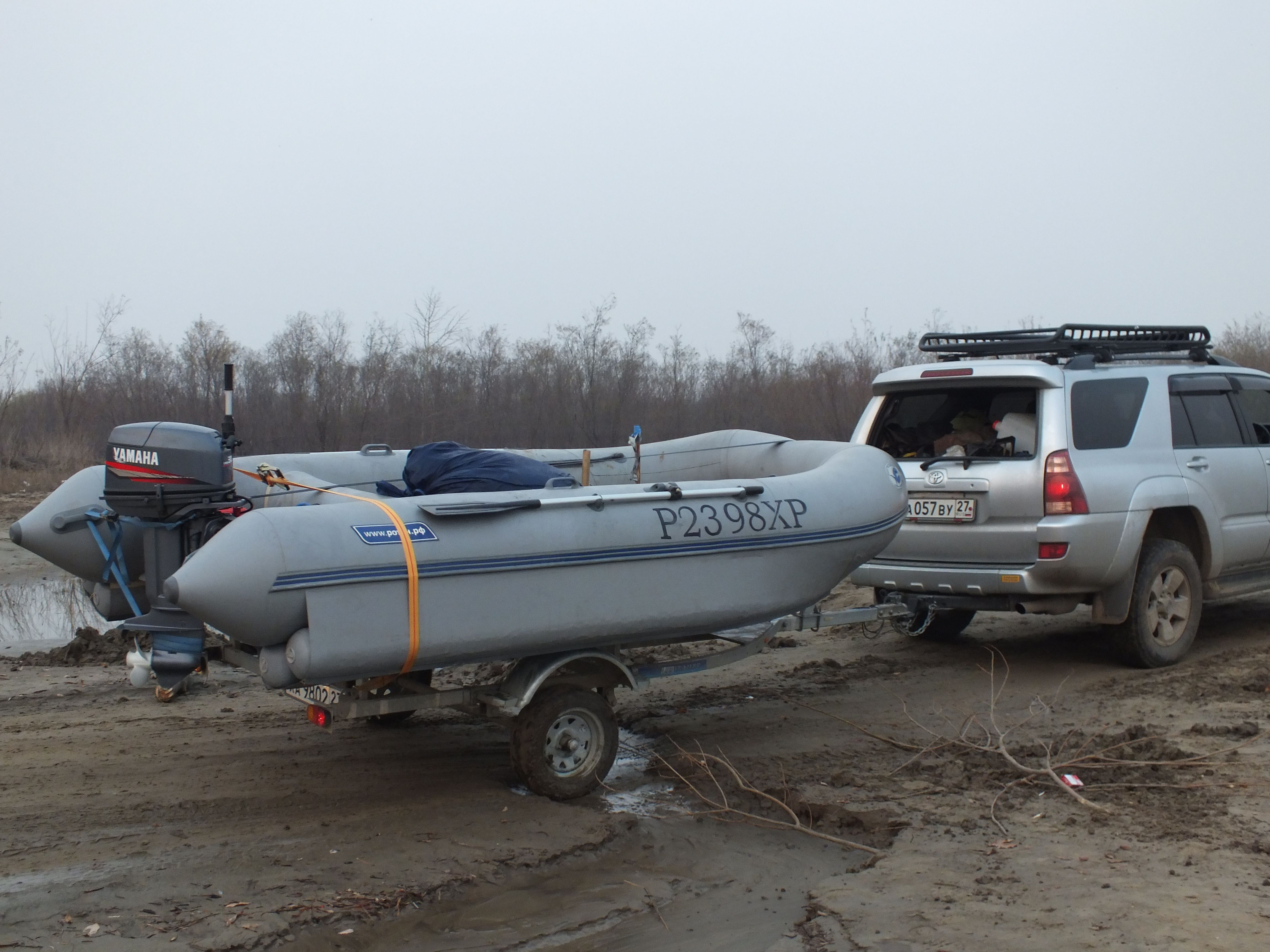 Motorboats